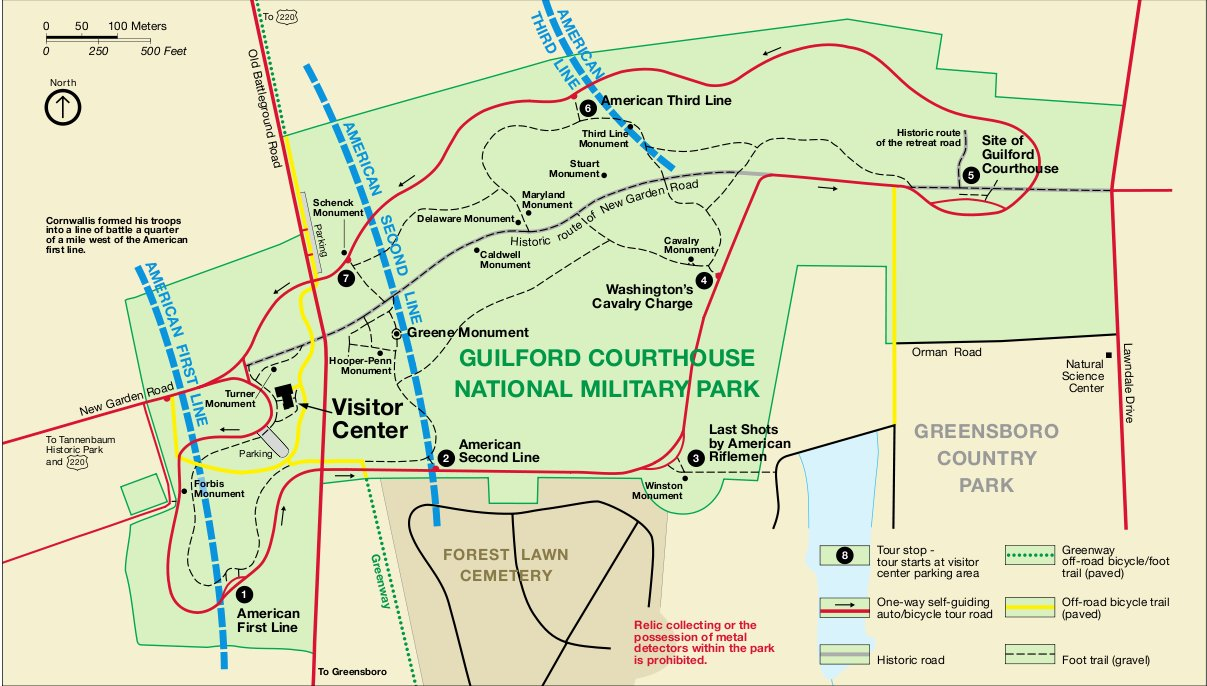 This old map of the Guilford Courthouse National Military Park, in conjunction with a newer map, will illustrate how historiographical interpretations of the battlefield have changed. This JPEG was derived from a PDF file.